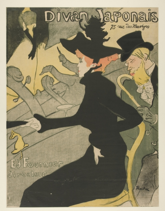 "Divan Japonais," poster lithograph in colors, by the French artist Henri de Toulouse-Lautrec. 31 1/2 in. x 24 in. Mr. & Mrs. Carter H. Harrison Collection, Yale University Art Gallery, Yale University, New Haven, Conn.